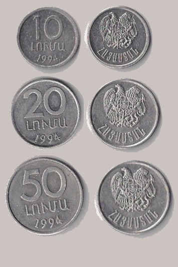 loumas of Dram money.